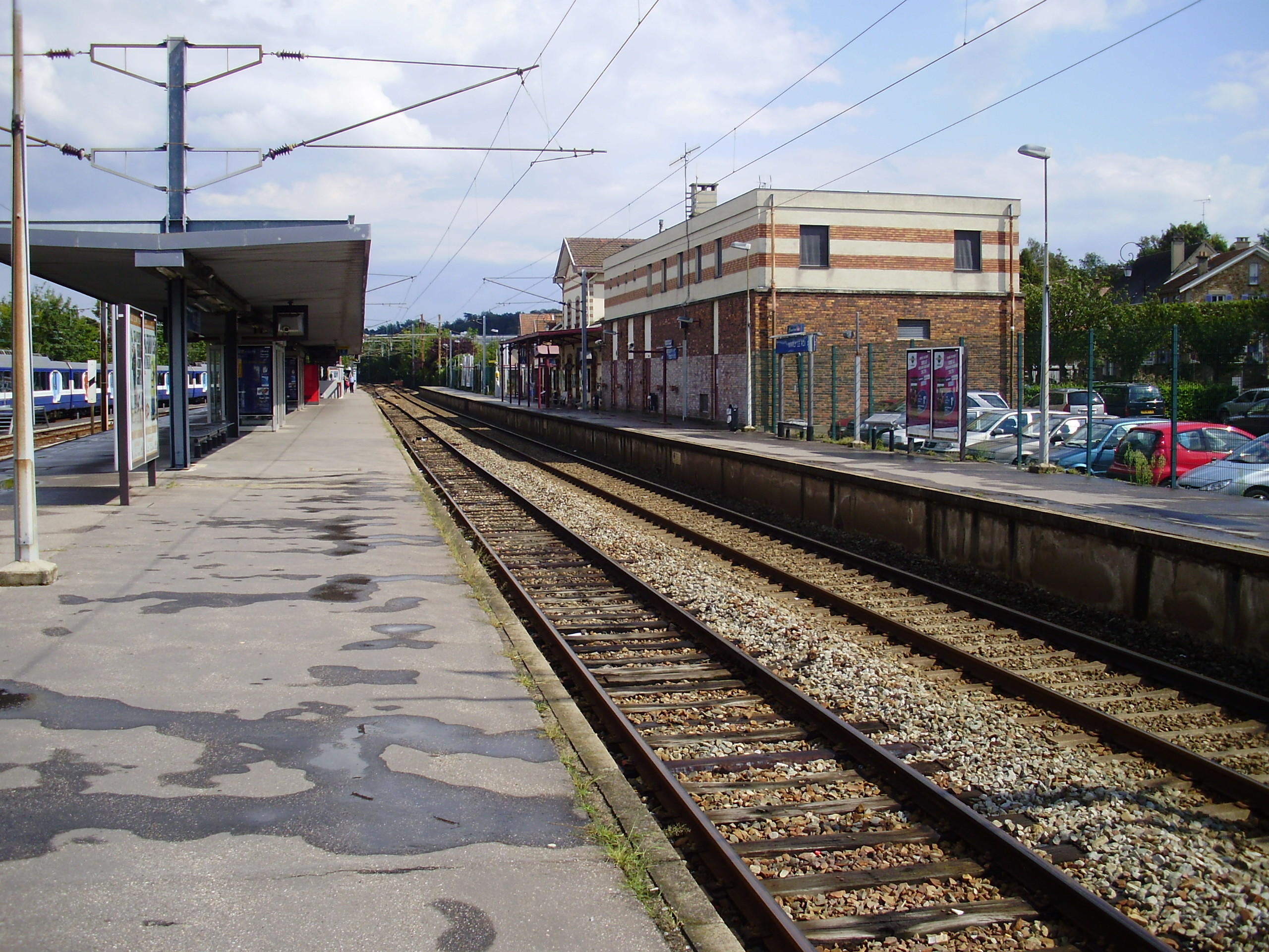 Marly-le-Roi station, Yvelines, France (view from the platform B by looking towards Paris-Saint-Lazare : buildings of the platform A and parking)